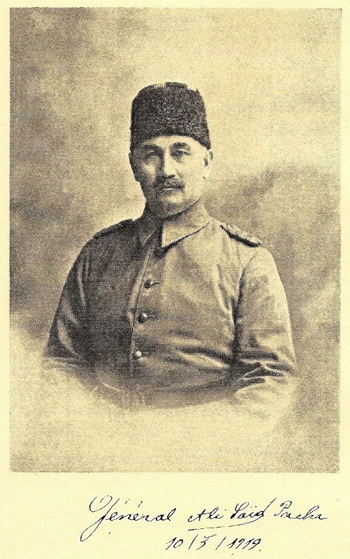 Ali Said Pasha